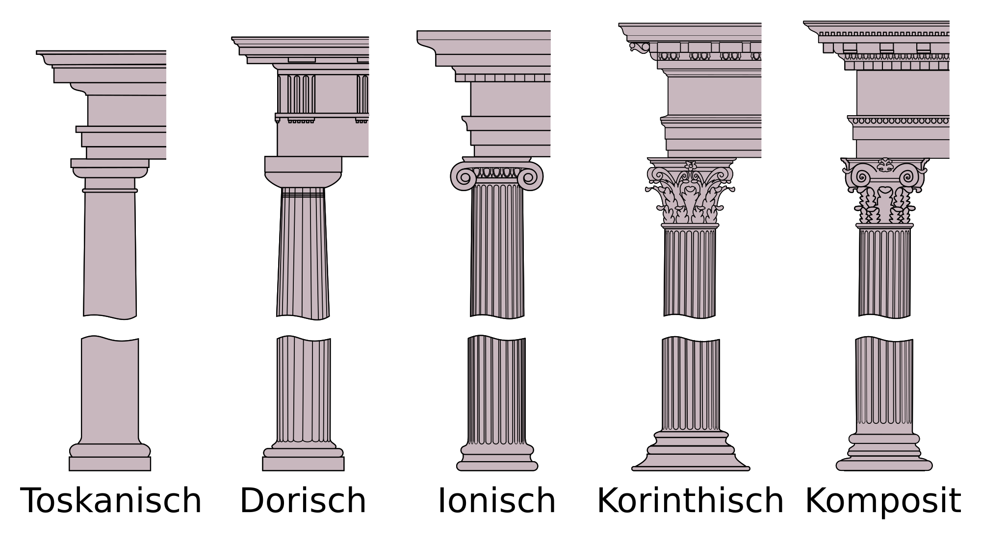 five column orders with German description labels